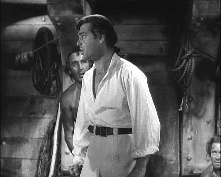 Clark Gable as Fletcher Christian in a screenshot from the trailer for the film Mutiny on the Bounty.